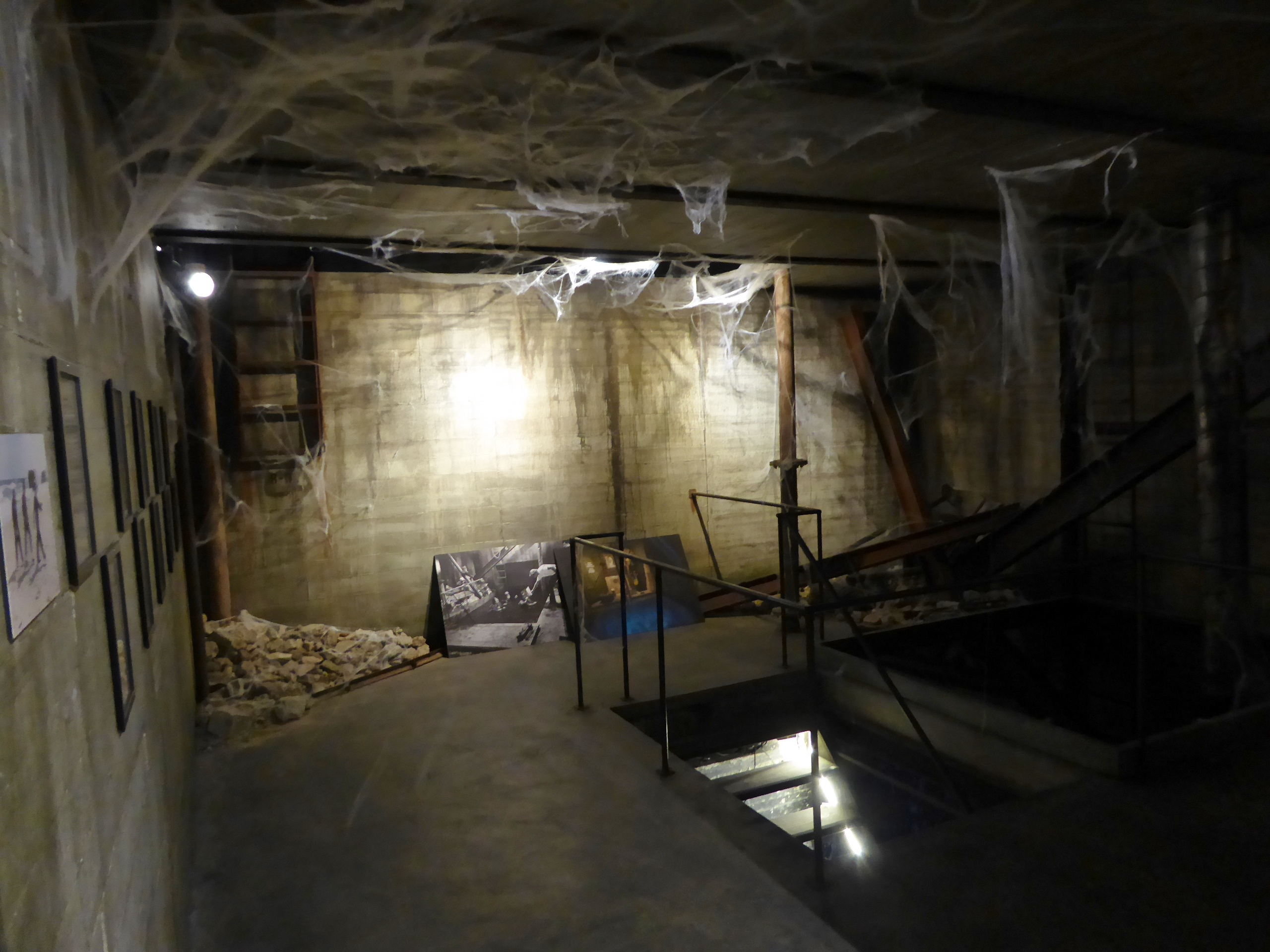 Recreation of a German bunker from the Danish 1971 movie Olsen-banden i Jylland in a special Olsen-banden exhibition at Nordisk Film in Copenhagen. The interior scene of the bunker was actually recorded right here. At the right is a hole which Olsen-banden jumped into in the movie.